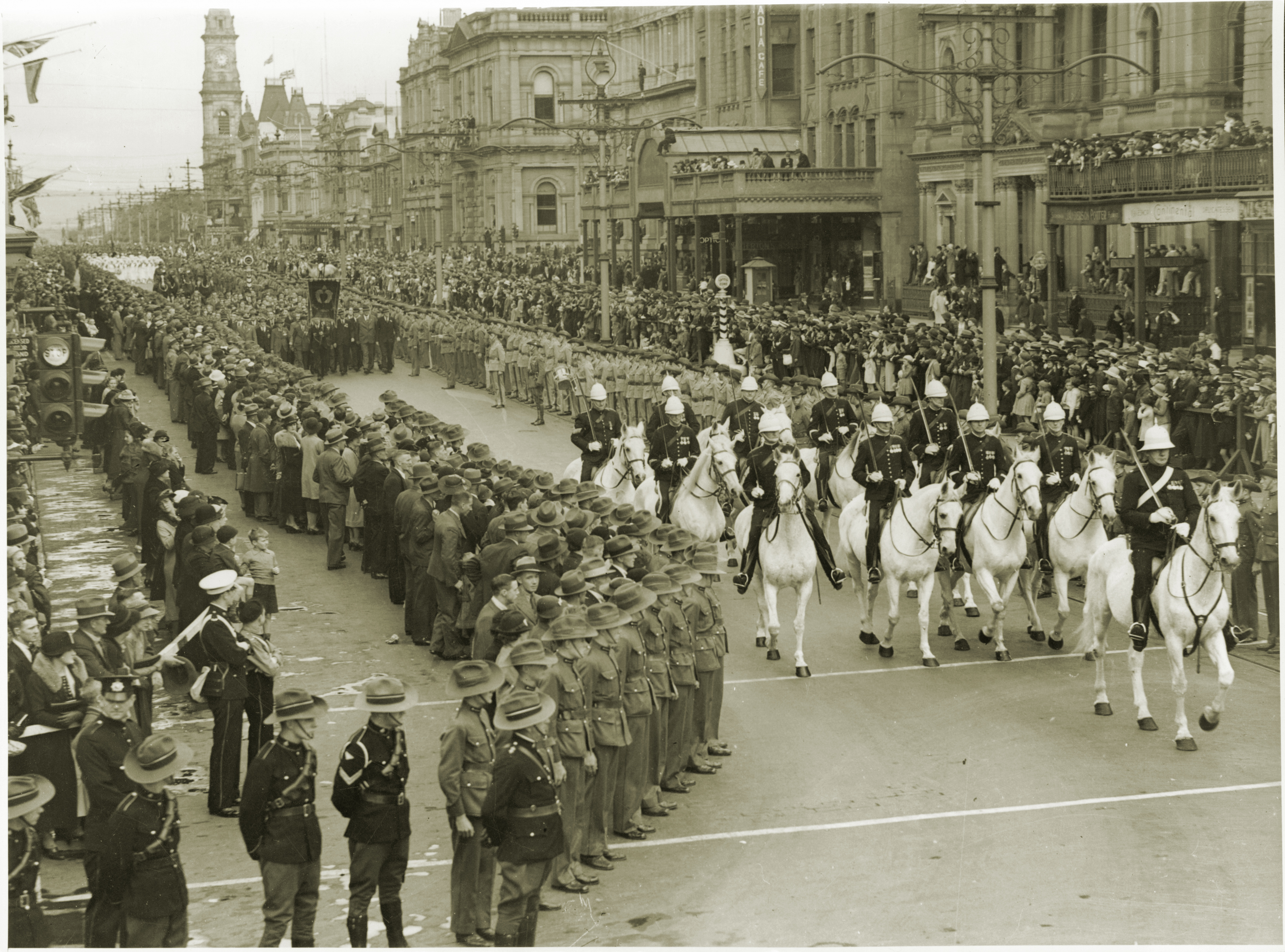 A black and white photograph of a military procession lead by mounted police